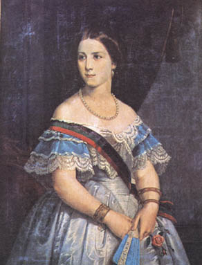 Portrait of Stephanie of Hohenzollern-Sigmaringen (1837-1859), Queen Consort of Portugal